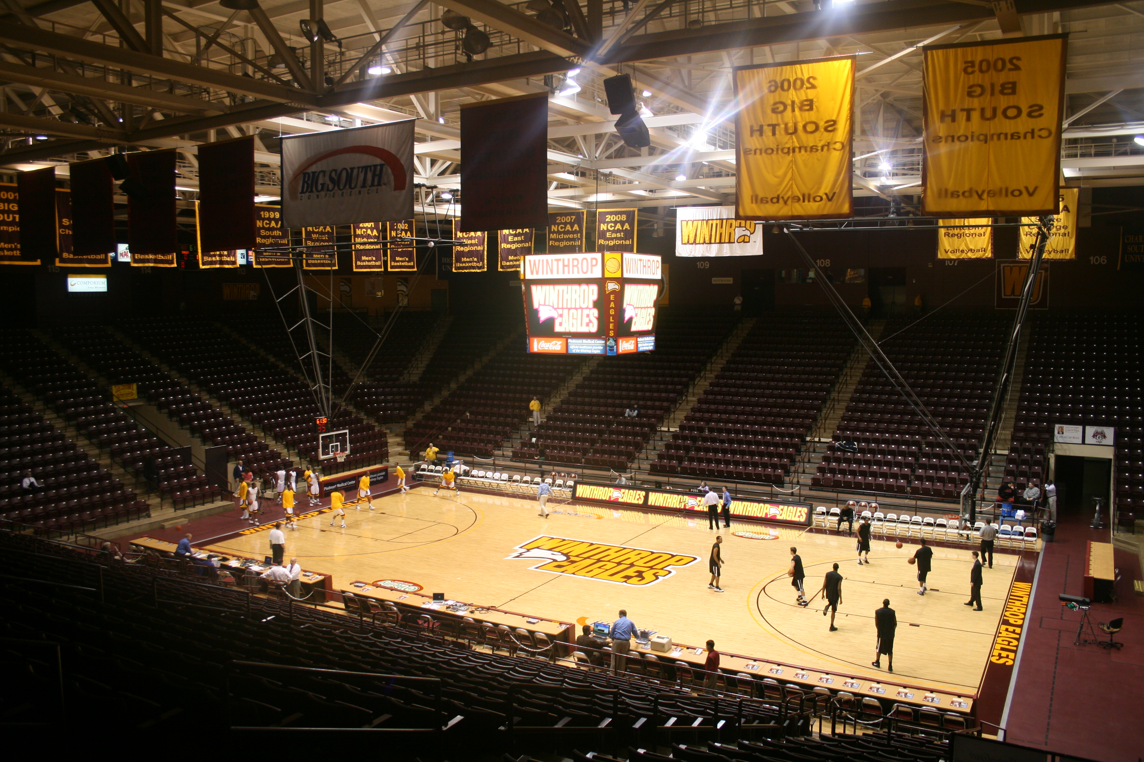 Practice game at Winthrop Coliseum of Rock Hill, SC